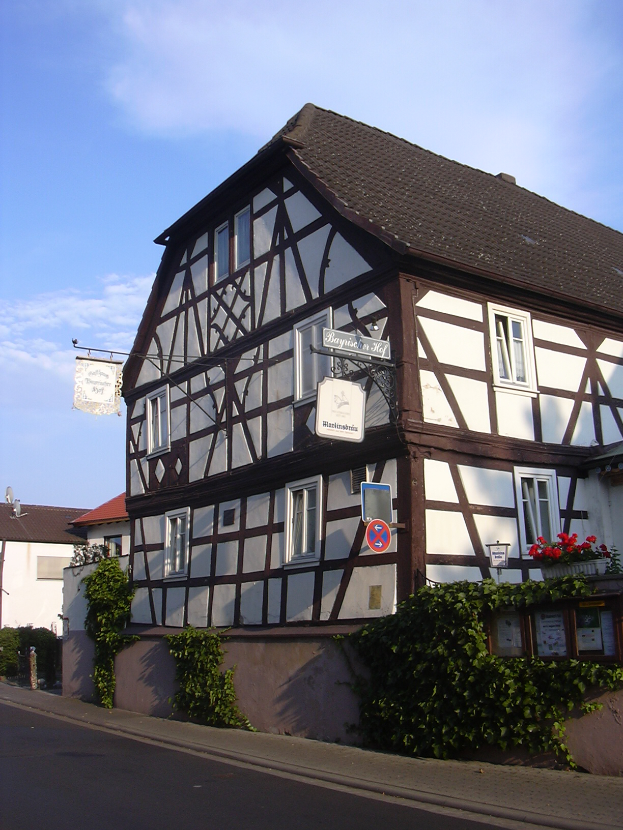 Oldest framework building (17th century) at Kahl, near Aschaffenburg, Bavaria/Germany